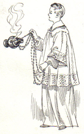 line art drawing of censer.